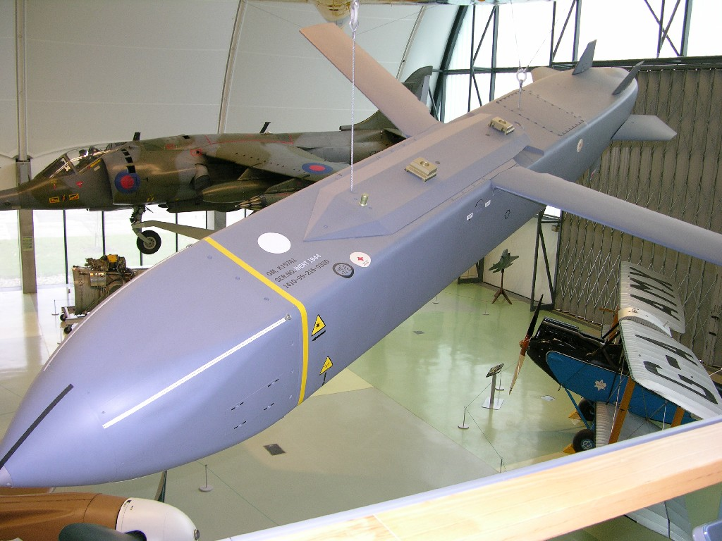 Storm Shadow - Royal Air Force - Standoff Missile - display at RAF Museum Hendon - London.